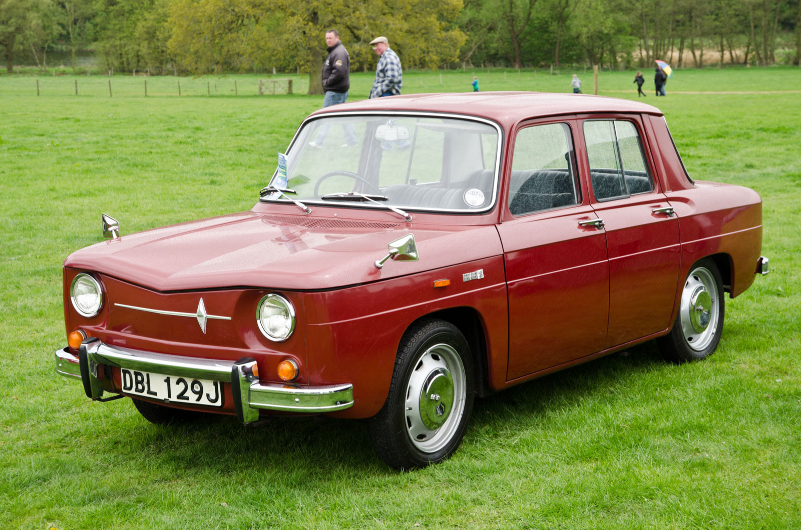 Vale Royal Classic Car Show at Arley Hall 12/05/2013